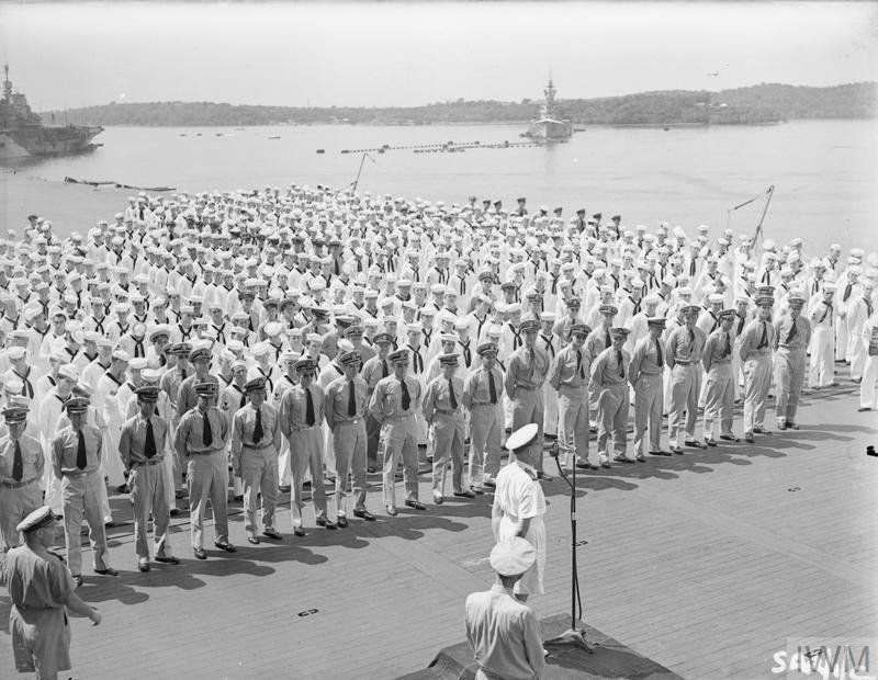 Admiral Sir James Somerville addressing the ship's company of the USS SARATOGA on 3 April 1944